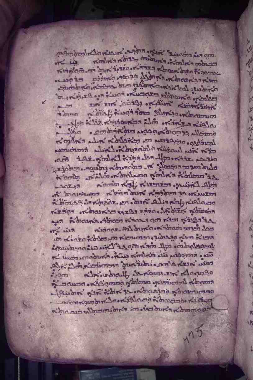 a page from the Khaburis Codex with the text of 1 Timothy 3:16-4:14